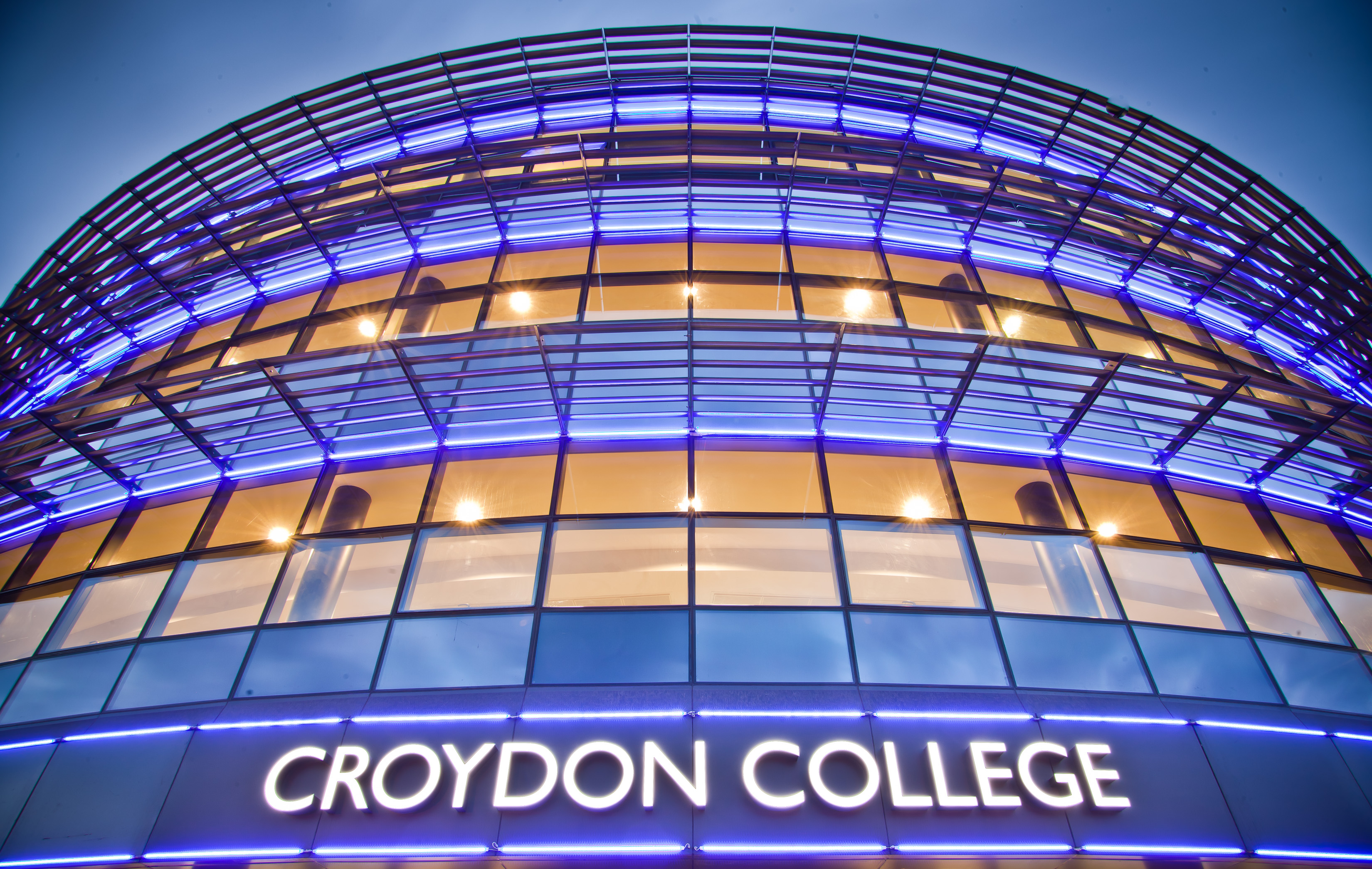 Croydon College Building (David Baird)